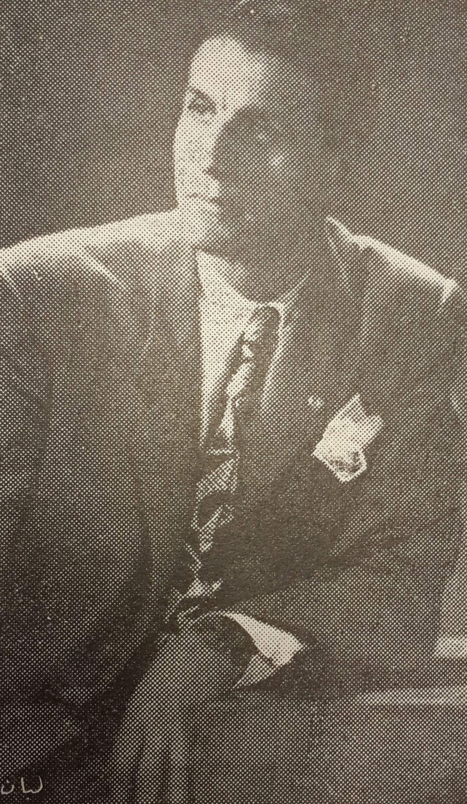 Founder of the Lebanese Kataeb Party, Sheikh Pierre Gemayel, during his younger years.